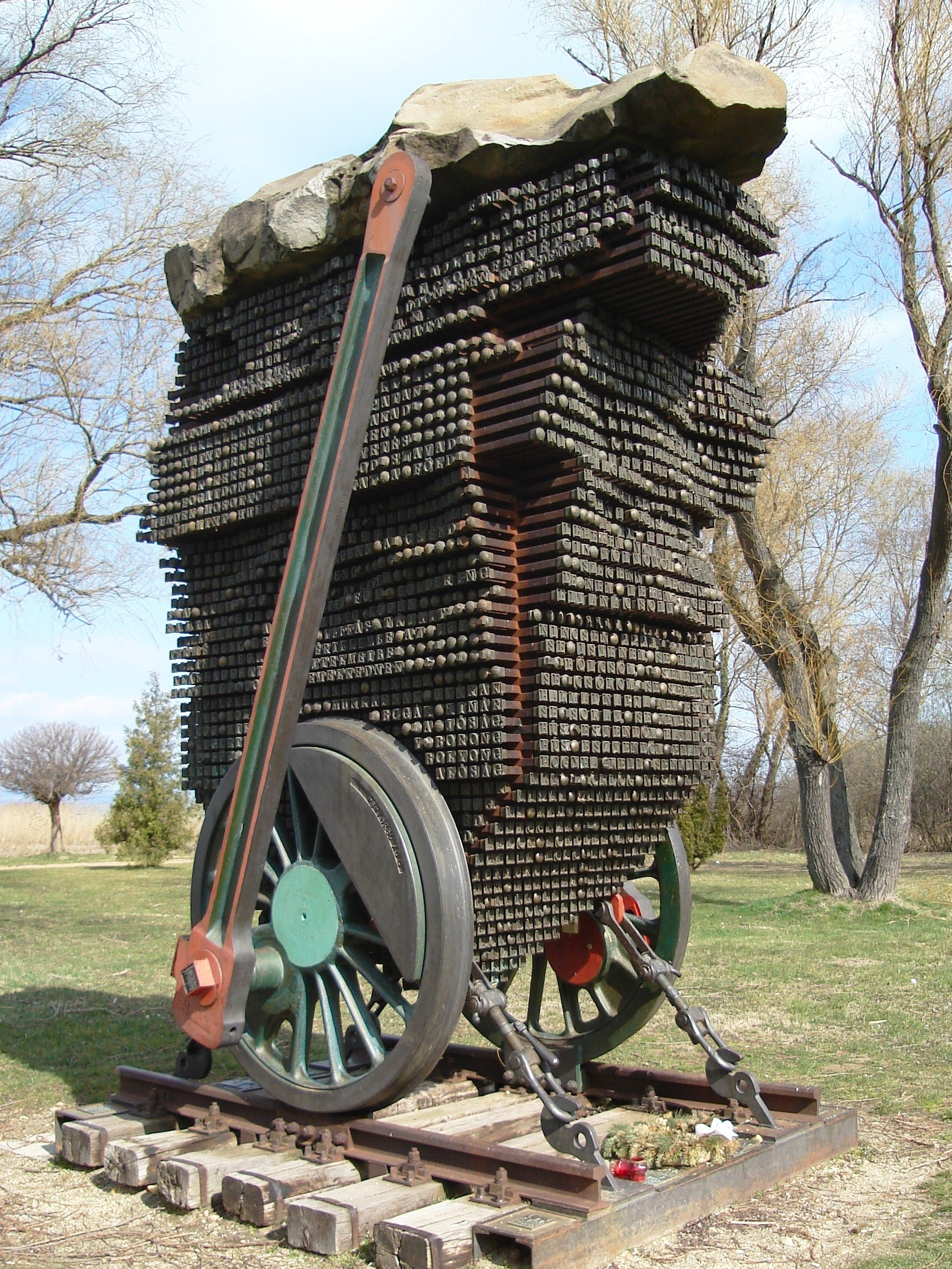 Memorial to Mr Attila József (1905-1937) Hungarian poet, near the railway station of Balatonszárszó in the park bordering the lake Balaton. On the imitated cliches that spin on locomotive wheels recalling the circumstances of the poet's death, we can read some strophes of his famous verses. The authors of the monument erected in 1998 are Mr. Tamás Ortutay sculptor and architect Mrs Mária Sarkady.